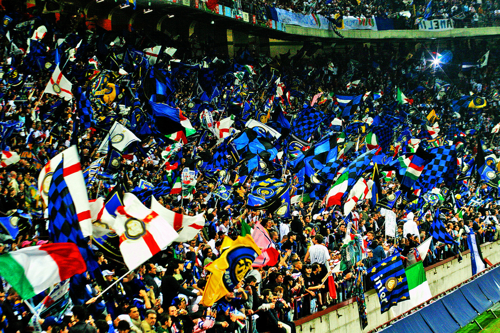 Inter Fans.